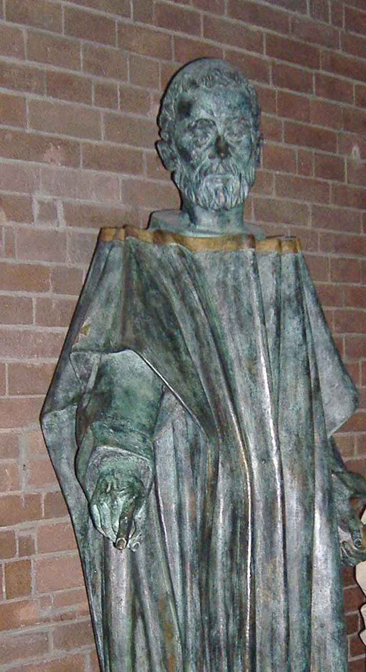 Statue of St. Savino, Bishop of Piacenza, Italy